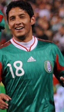 Mexico defeats Bolivia 5-0 in an international friendly on February 24th, 2010 in San Francisco, CA. Photo by Joe Nuxoll - .